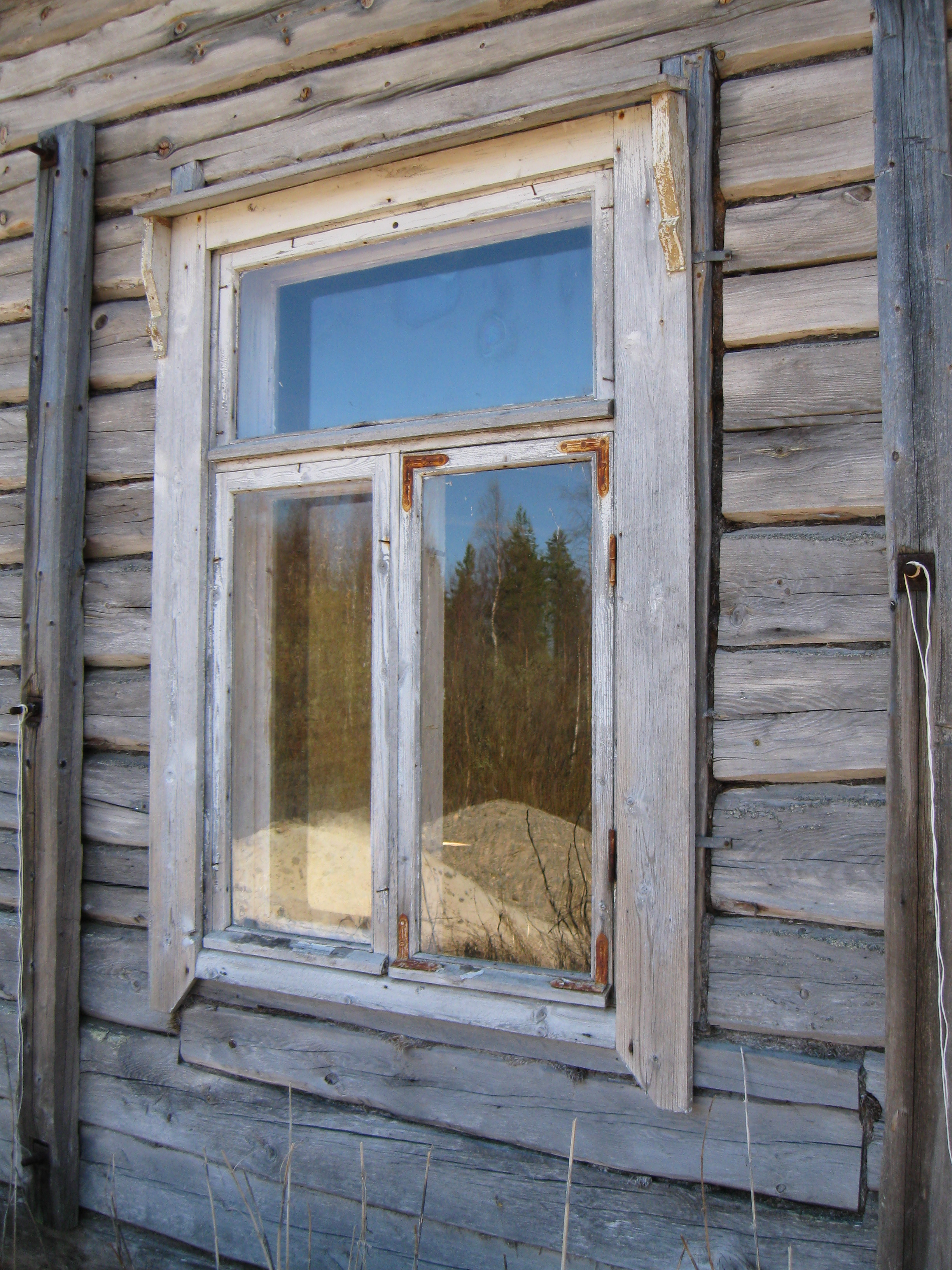 A window of an old Finnish farmhouse.